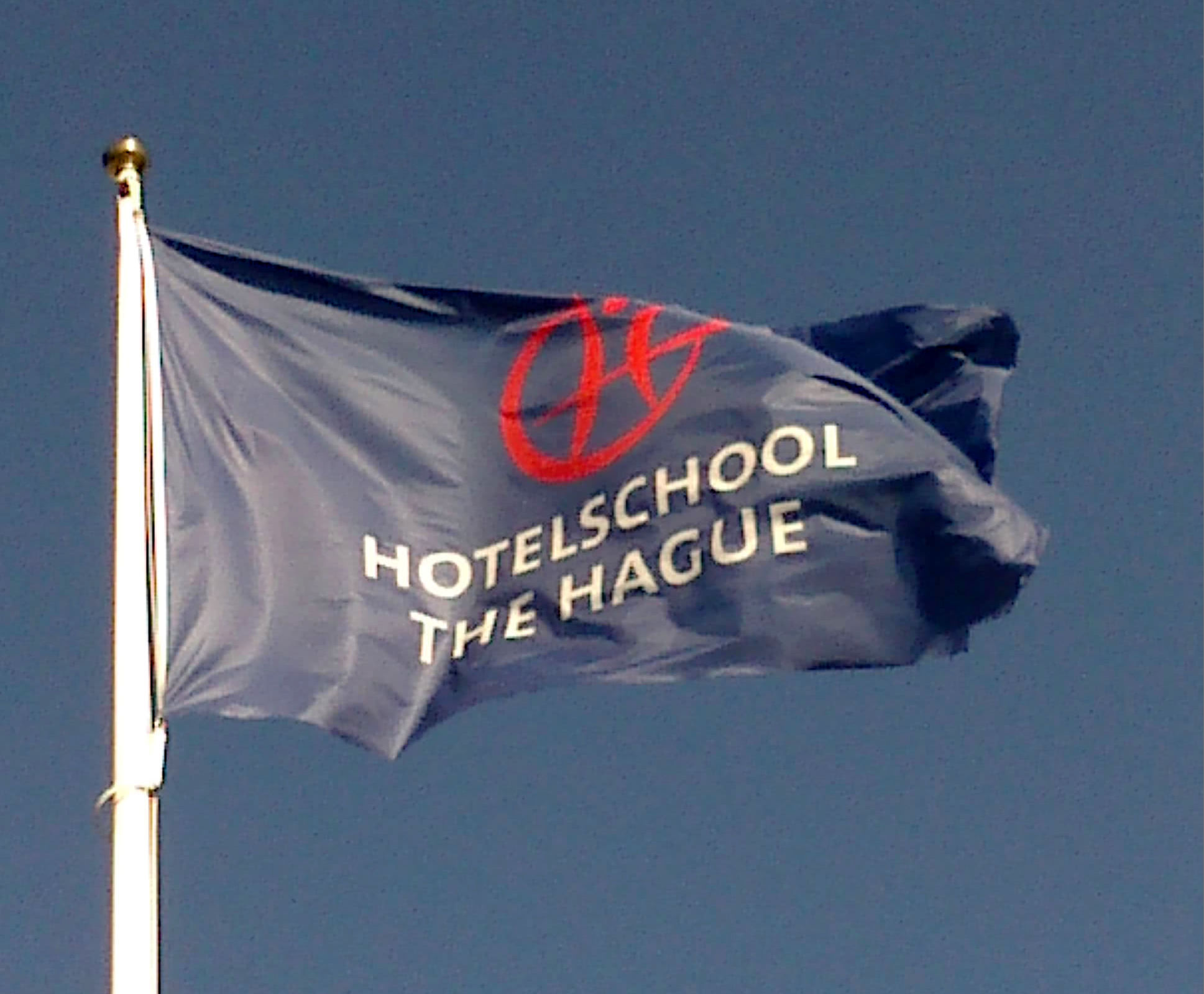 Hotelschool The Hague, main building at Brusselselaan, The Hague